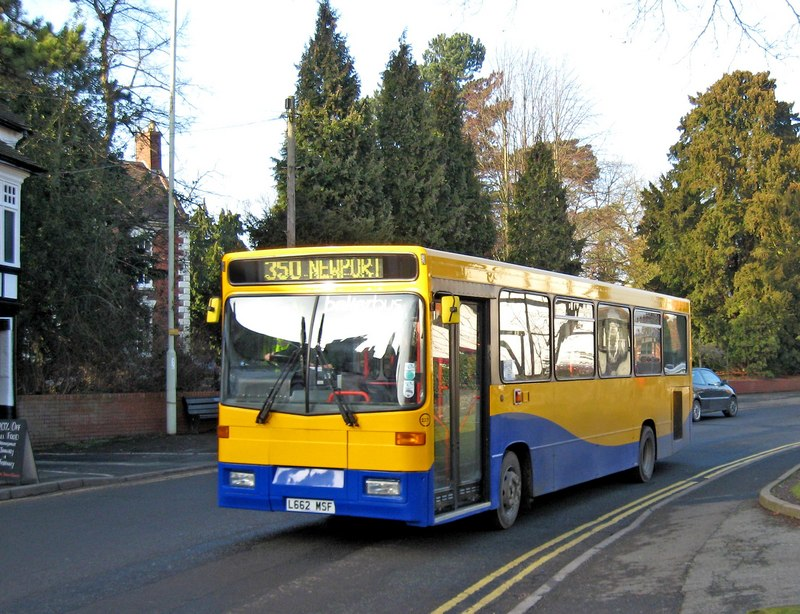 Bakerbus Volvo B6 reg L662MSF on service 350 Hanley to Newport, Data from Geograph: Description: Bakerbus is an independent coach and bus operator, based at Biddulph, Stoke-on-Trent. It operates about 20 local bus services, mainly in parts of Staffordshire and Cheshire. Its service 350 runs about four times a day from Hanley,... more ICBM: 52.7717553088, -2.3820783298959 Location: (about 0 km from) near to Newport, Telford And Wrekin, Great Britain.